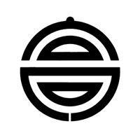 Symbol of old Takaoka City.